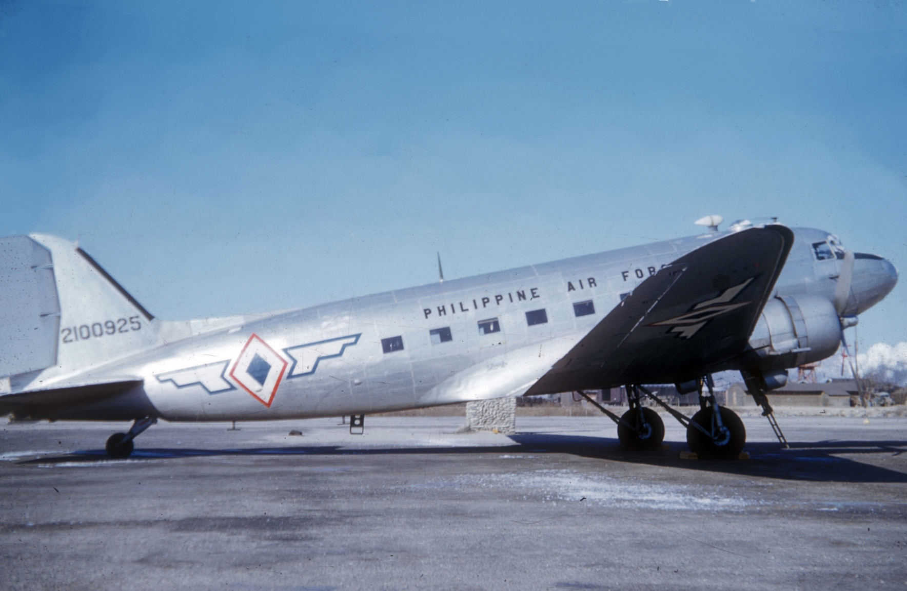 A Philippine Air Force Douglas C-47A-75-DL Skytrain (USAF s/n 42-100925, c/n 19388) in Korea. This aircraft was stored at Norton Air Force Base, California (USA), on 14 February 1951, and later sold to the Philippines.